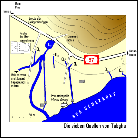 Map of the arae of seven springs in Tabgha (Israel)